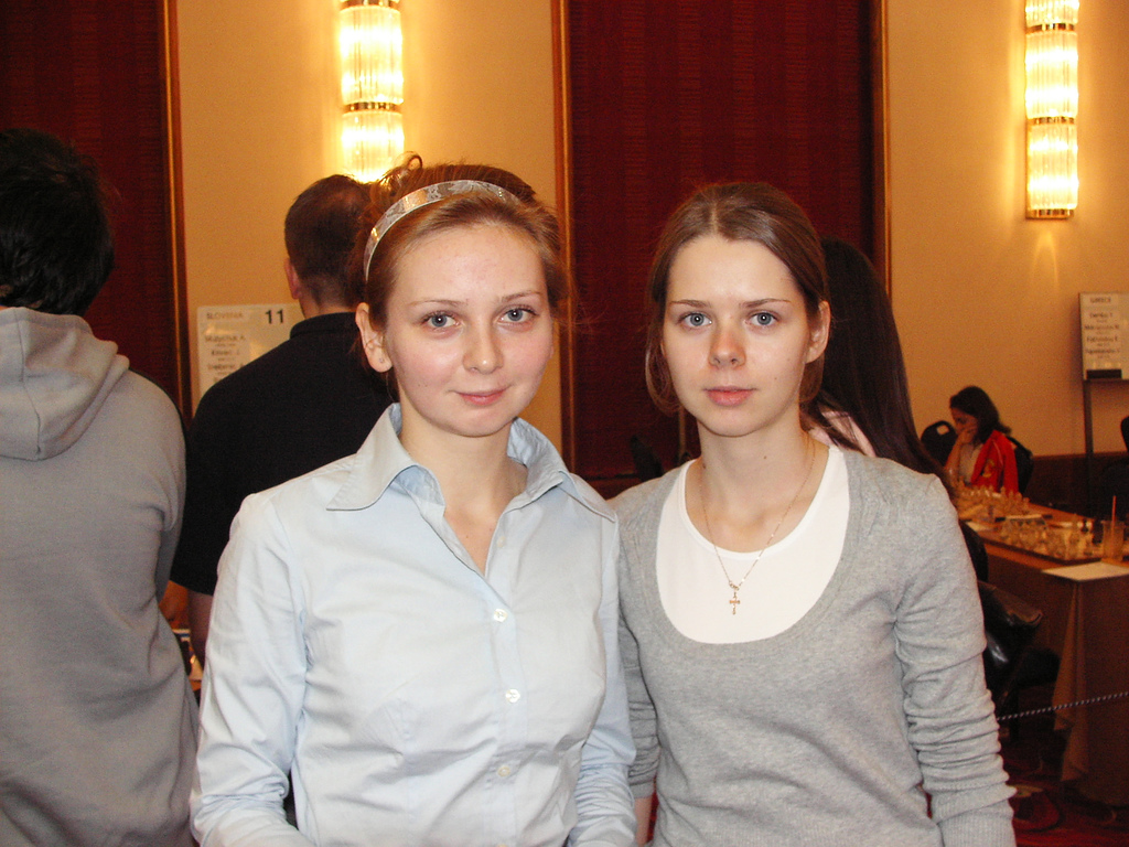 WGM Nadezhda Kosintseva (left) and WGM Tatiana Kosintseva from Russia, Heraklion 2007